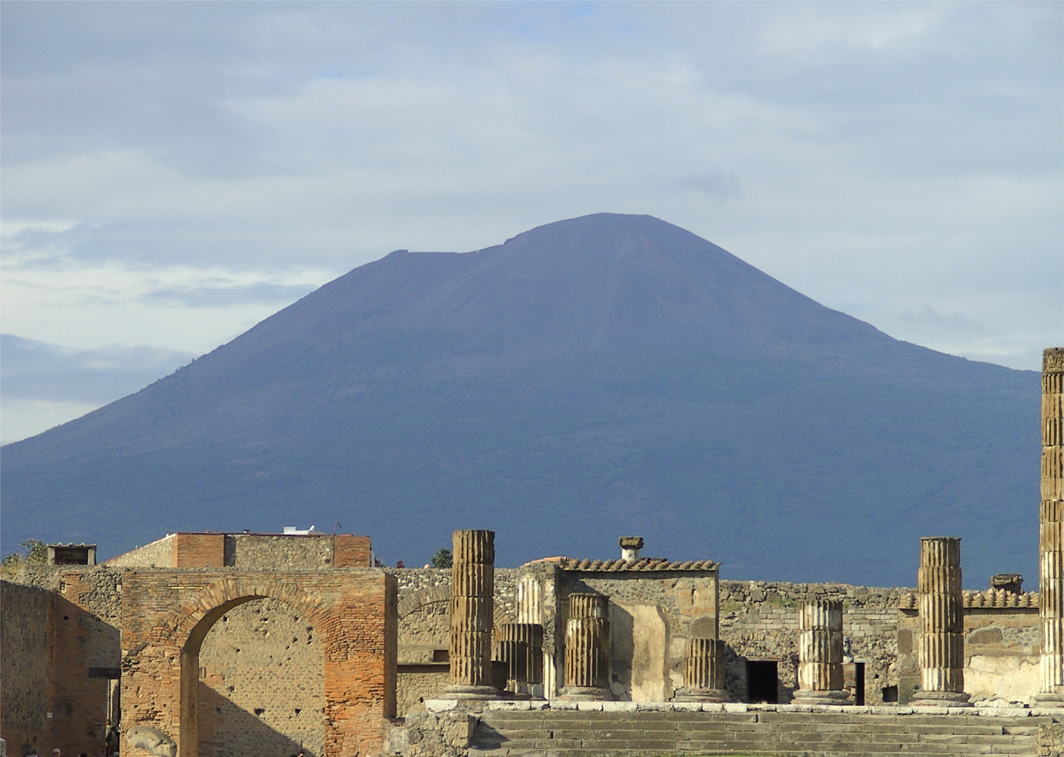 Ruines of the Temple of Jupiter in Pompeii with Mount Vesuvius in the background.